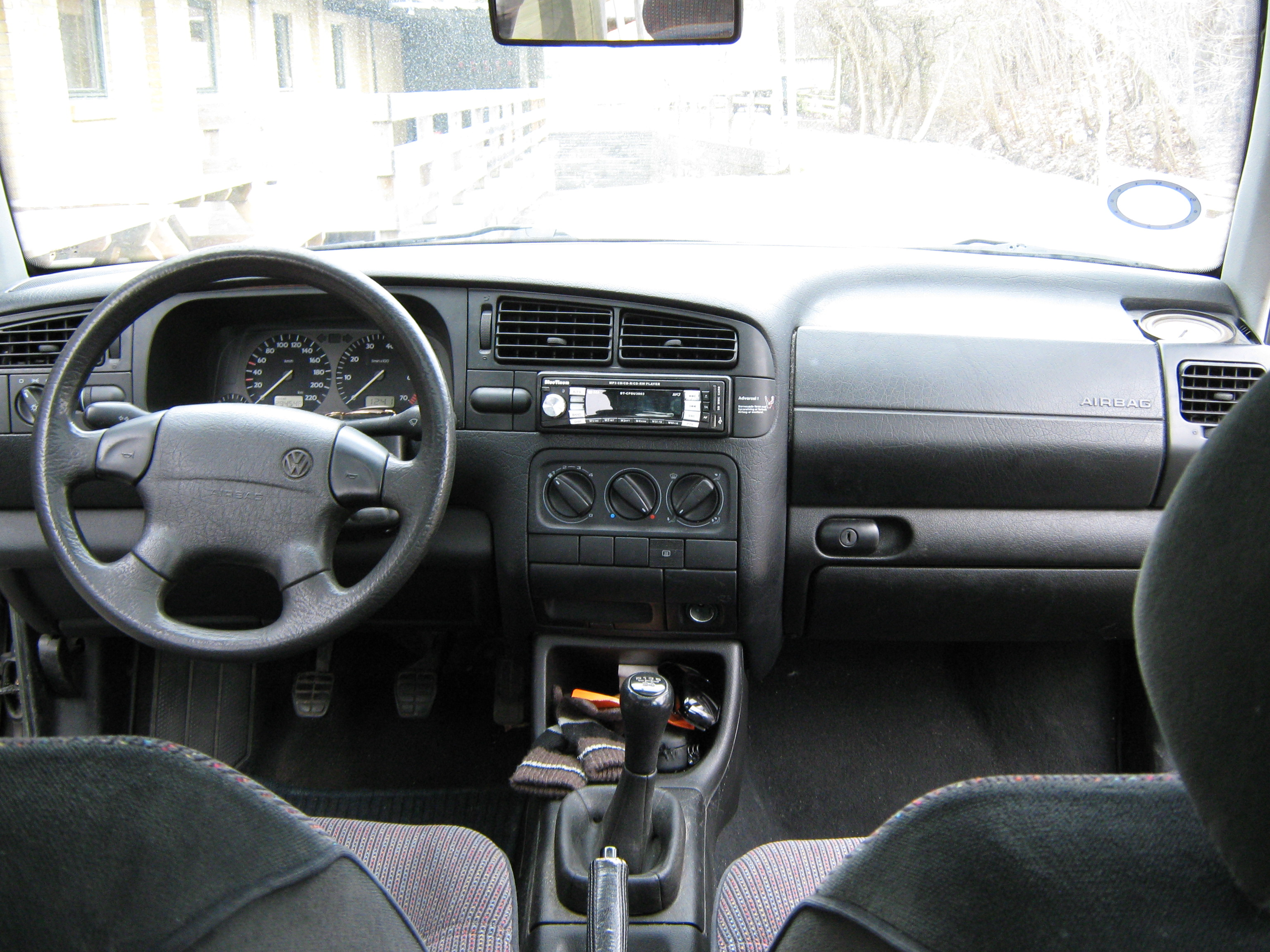 The dashboard of a 1996 Volkswagen Vento CLX